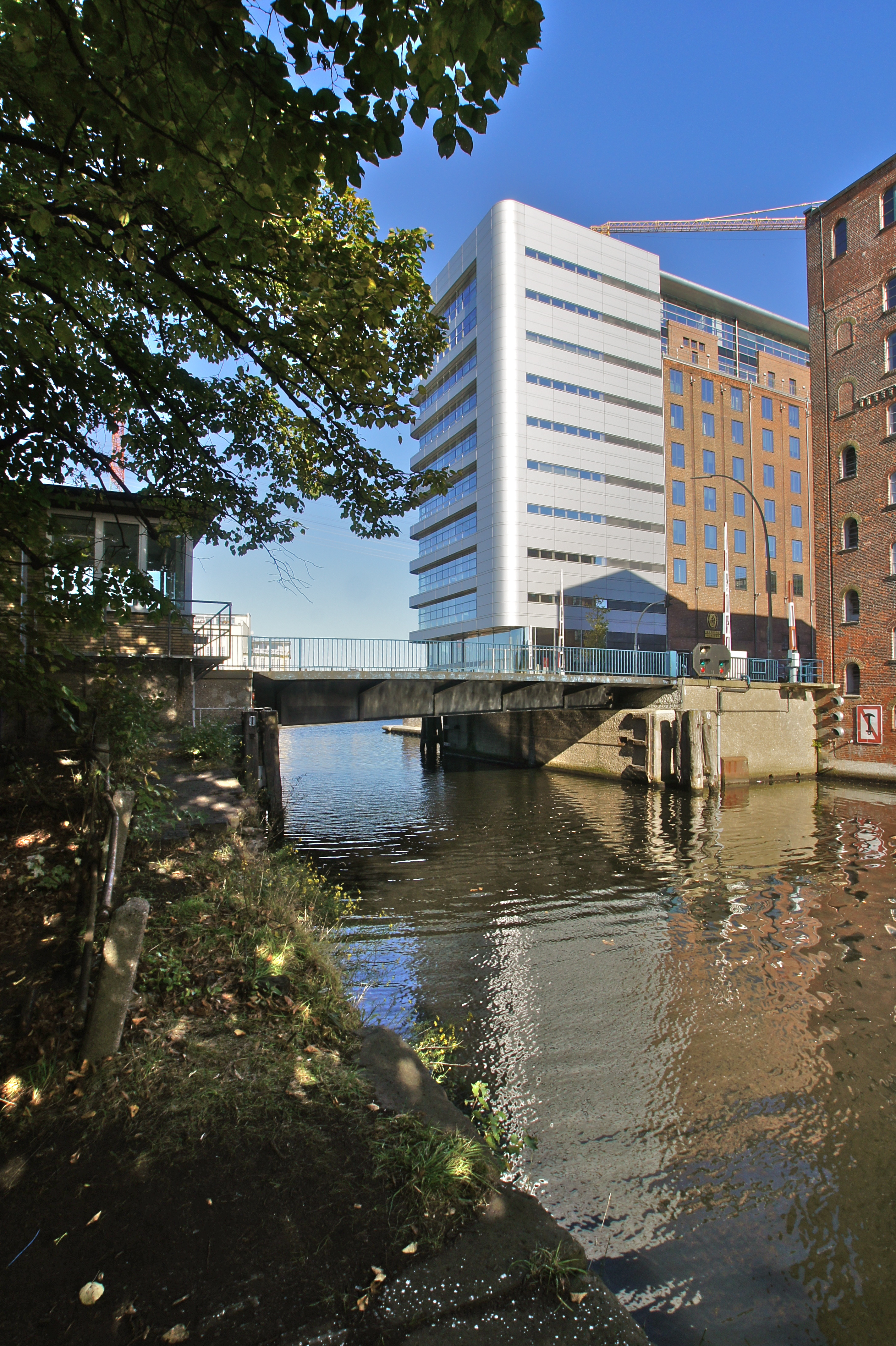 Hamburg (Harburg), Germany: Bridge over the Westlicher Bahnhofkanal